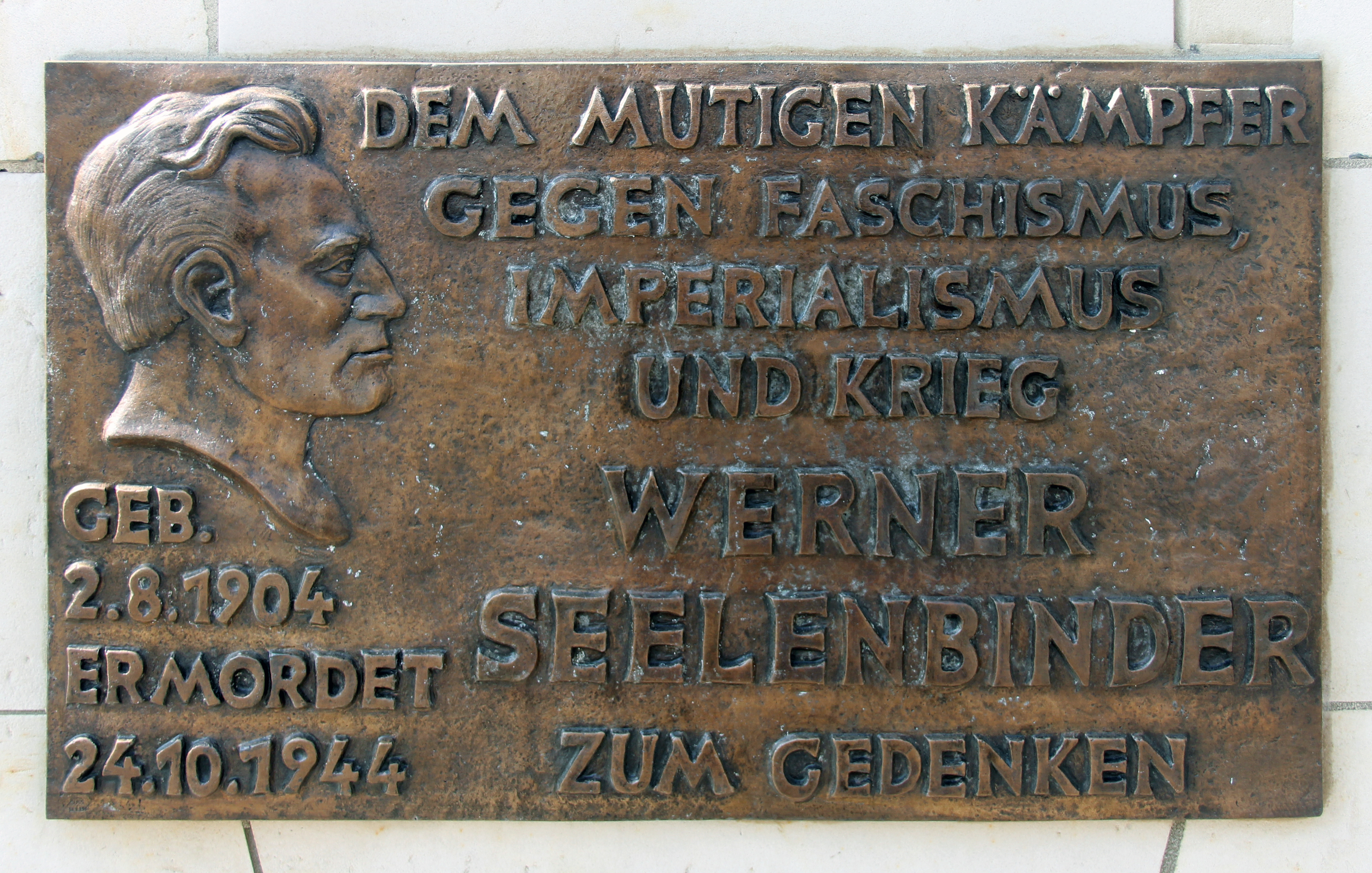 Memorial plaque, Werner Seelenbinder, Mandrellaplatz 9, Berlin-Köpenick, Deutschland